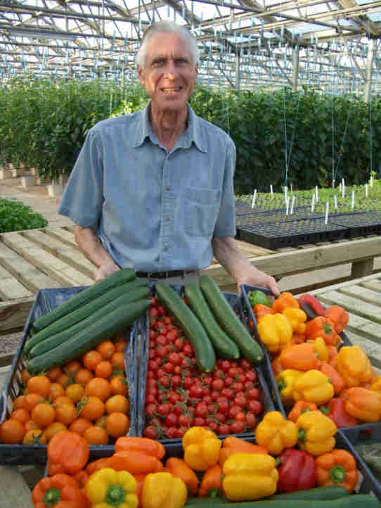 The hydroponic garden of Howard M. Resh.